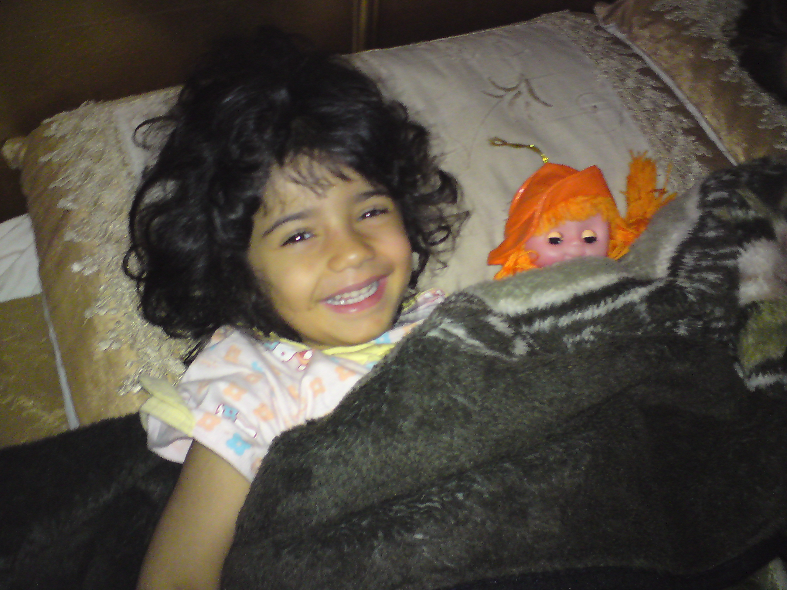 Mamy role game by an Iranain kid and a little girl toy